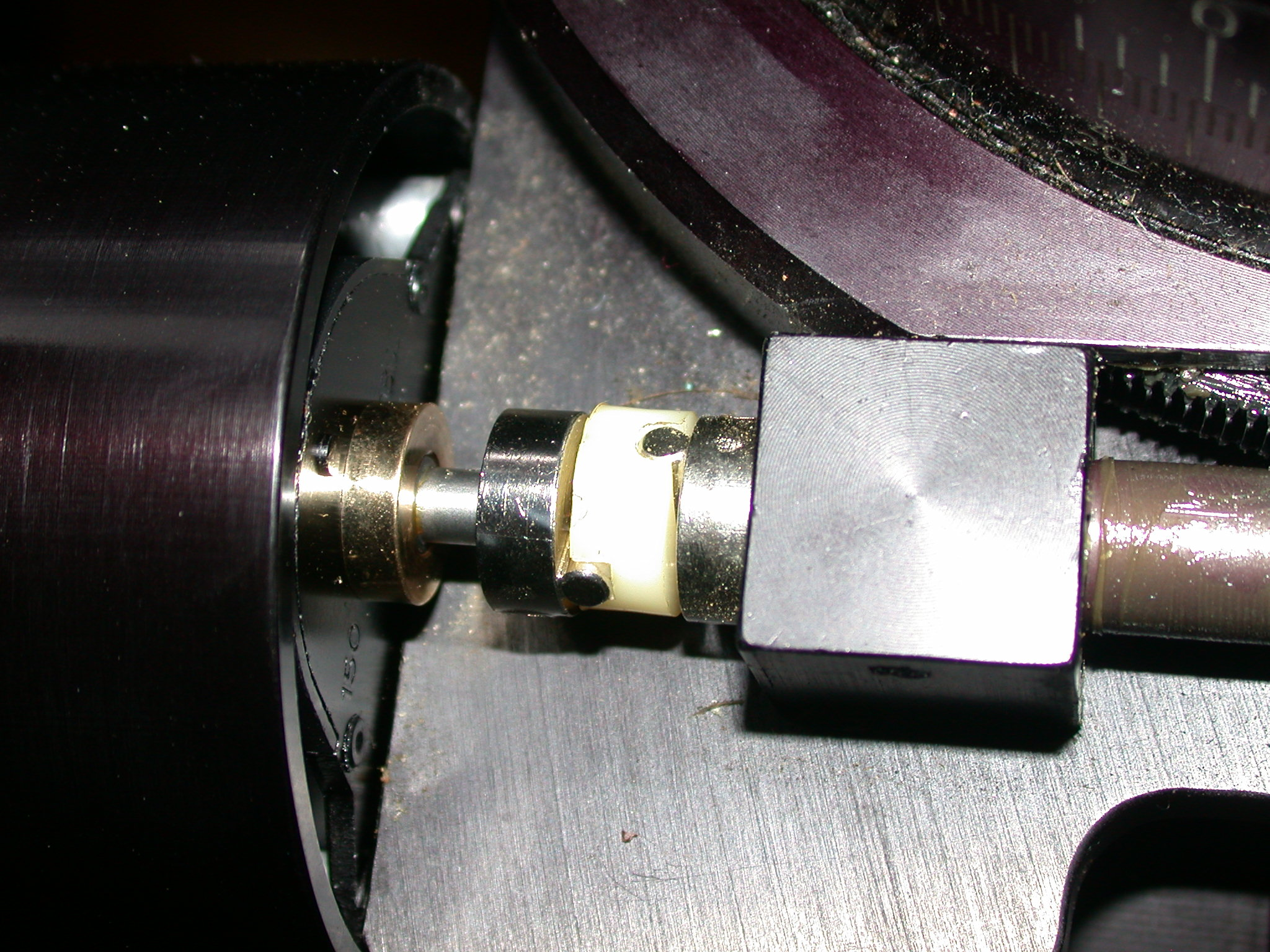 Oldham Coupler on a Losmandy G11 German Equatorial Telescope Mount. Left to right: motor, motor shaft with left disk (aluminum); central hub (nylon), right disk on worm bearing shaft; worm bearing block; worm with worm gear (top)